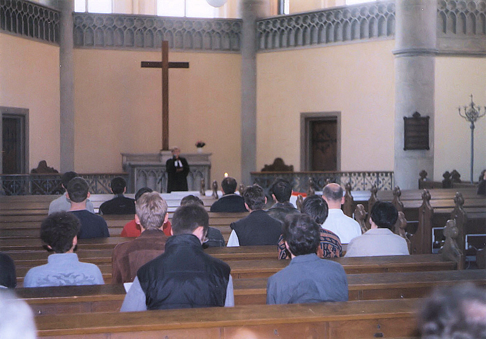 International AIDS Candlelight Memorial in the "Red" Church of Jan Amos Komensky, Brno, Czech Republic.